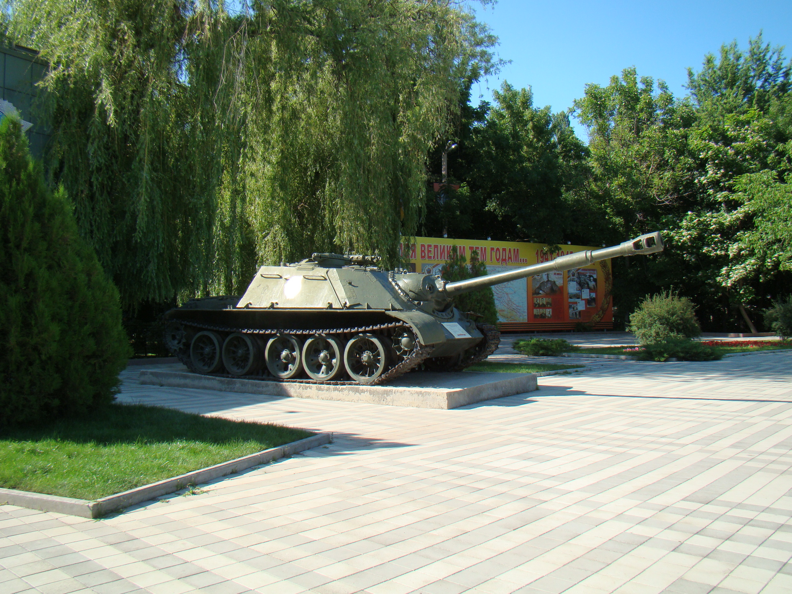 Музей военной техники "Оружие Победы". Парк культуры и отдыха имени 30-летия Победы, Краснодар. This file contains images of museum objects that are included in the Museum fund of the Russian Federation, or images of Russian museums buildings and symbols The Russian Museum Law, article 36, restricts anyone from: using images of museum objects and collections; buildings, museums and sites on museum grounds; and the names and symbols of museums; — on replicated products and consumer goods without authorization by the museum in question. English | русский | +/−